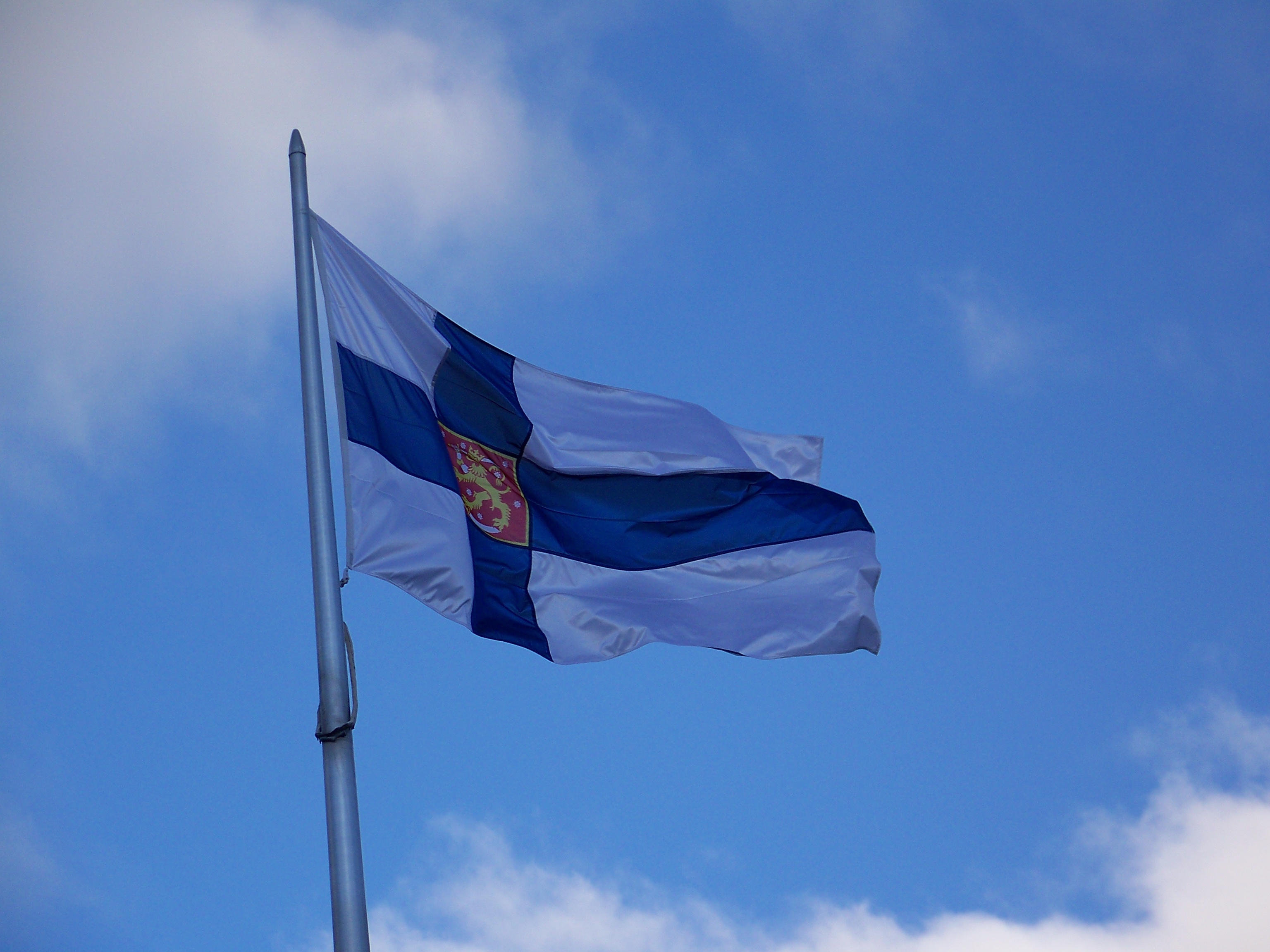 State flag of Finland, Finnish embassy, Canberra.